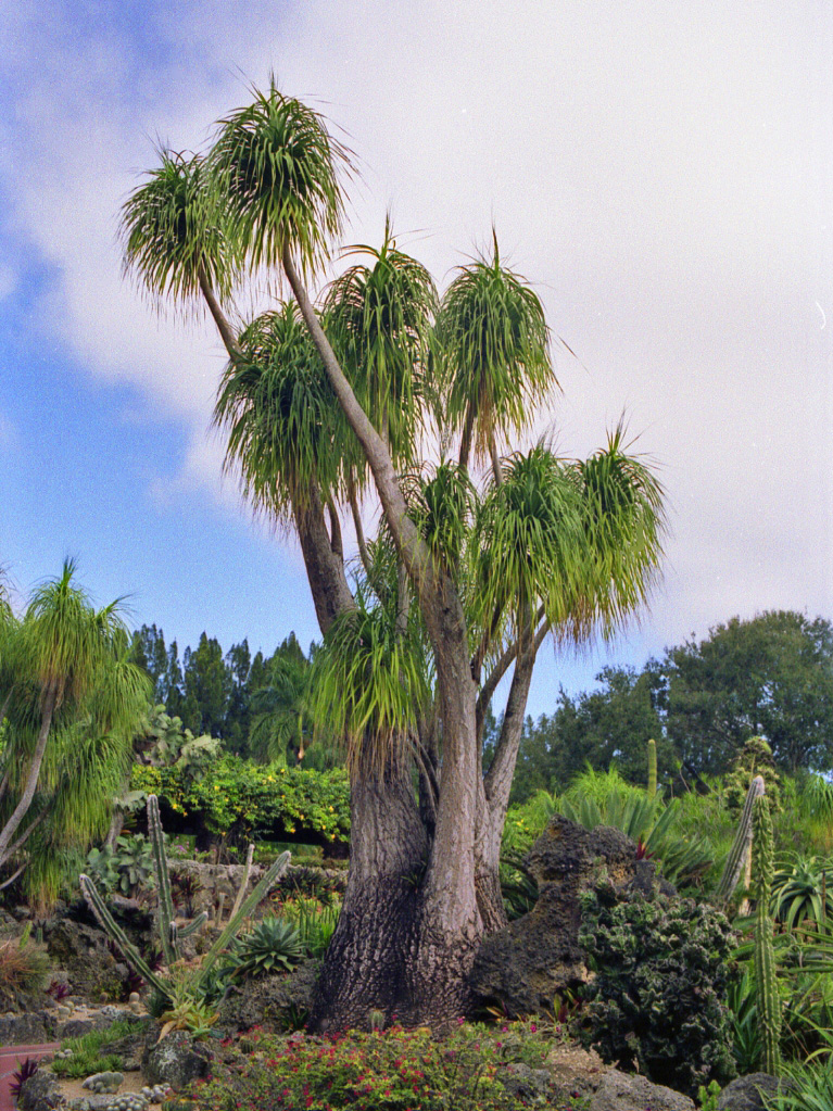 Beaucarnea recurvata - Parrot Jungle, Miami